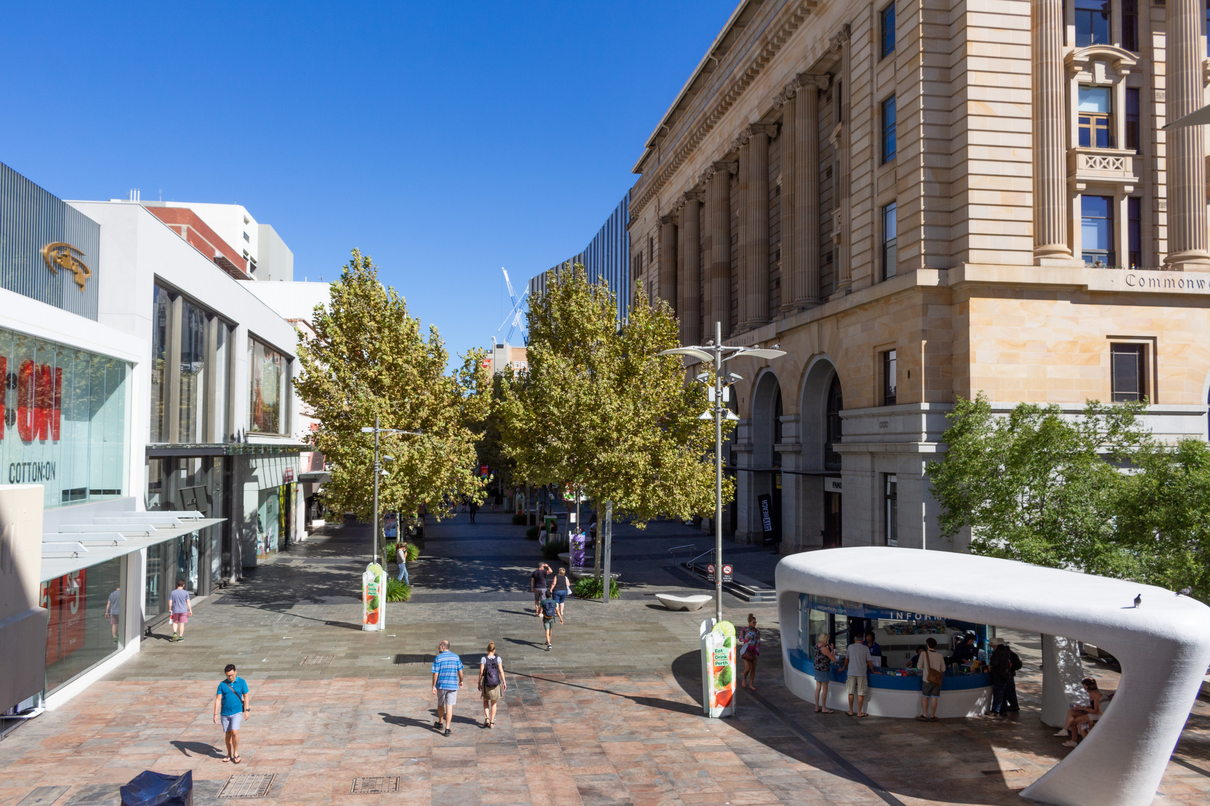 Murray Street Mall looking westward. Photographed from Padbury Walk.